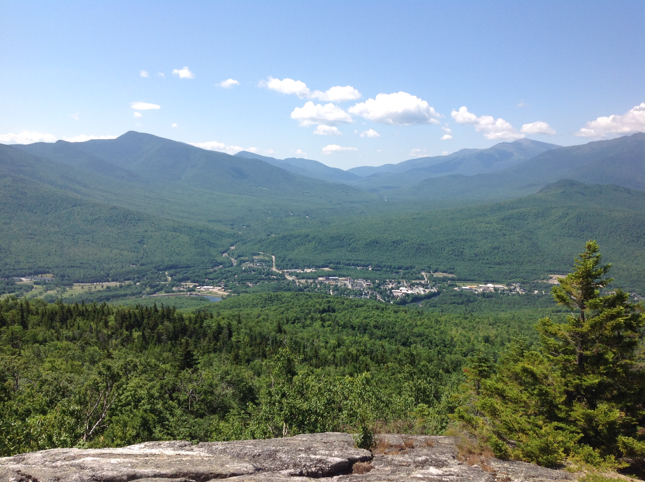 View of Gorham, N.H., from Mt. Hayes. (My own photo, I release to the public)